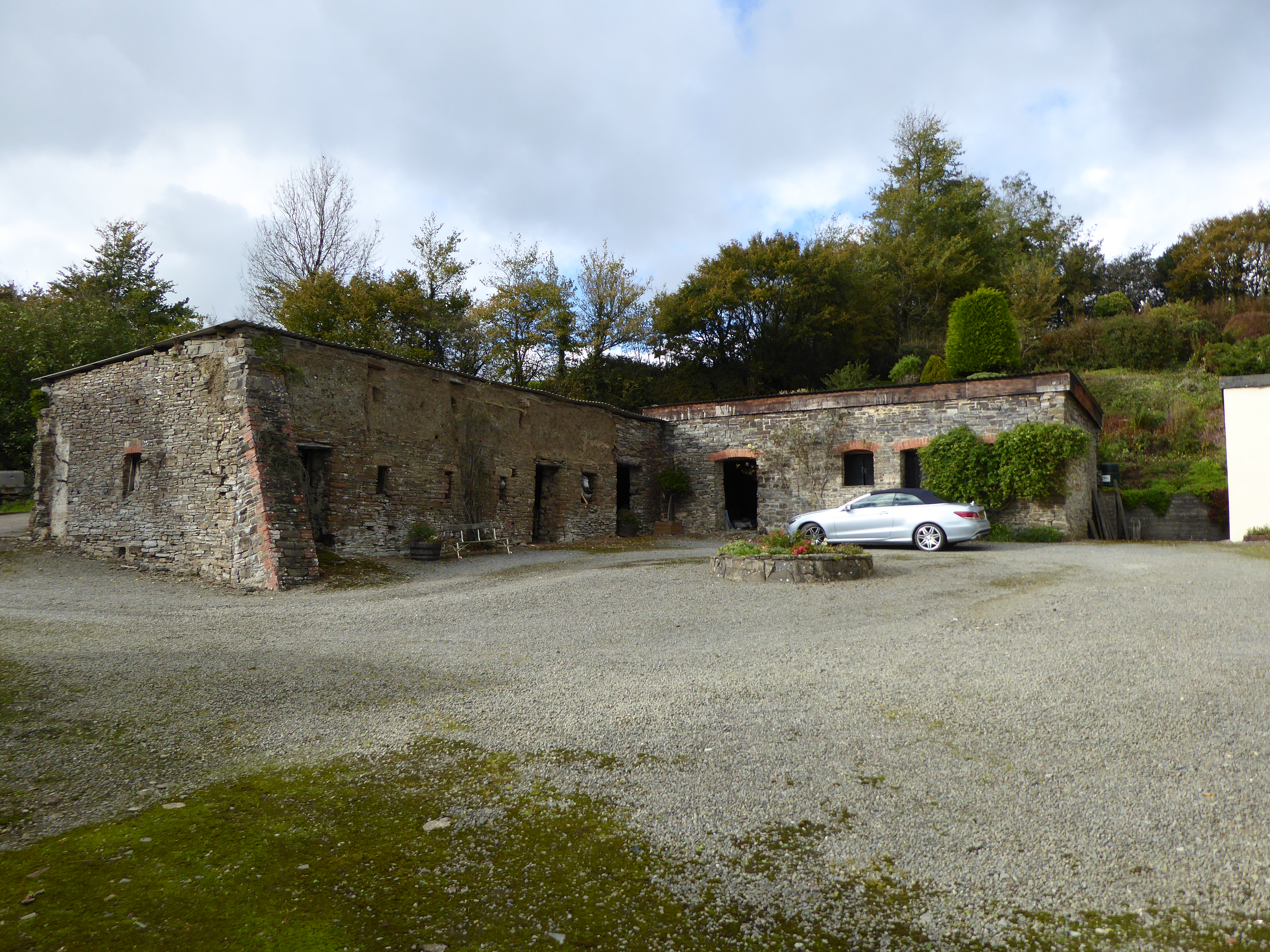 Buildings at Tower Farm in the parish of Swimbridge, Devon. It is believed to occupy the site of Ernsborough, an historic mansion house, of which only a tower was remaining in 1773 (according to Lysons, Daniel & Lysons, Samuel, Magna Britannia, Vol.6, Devonshire, London, 1822) hence the name of the present farm.